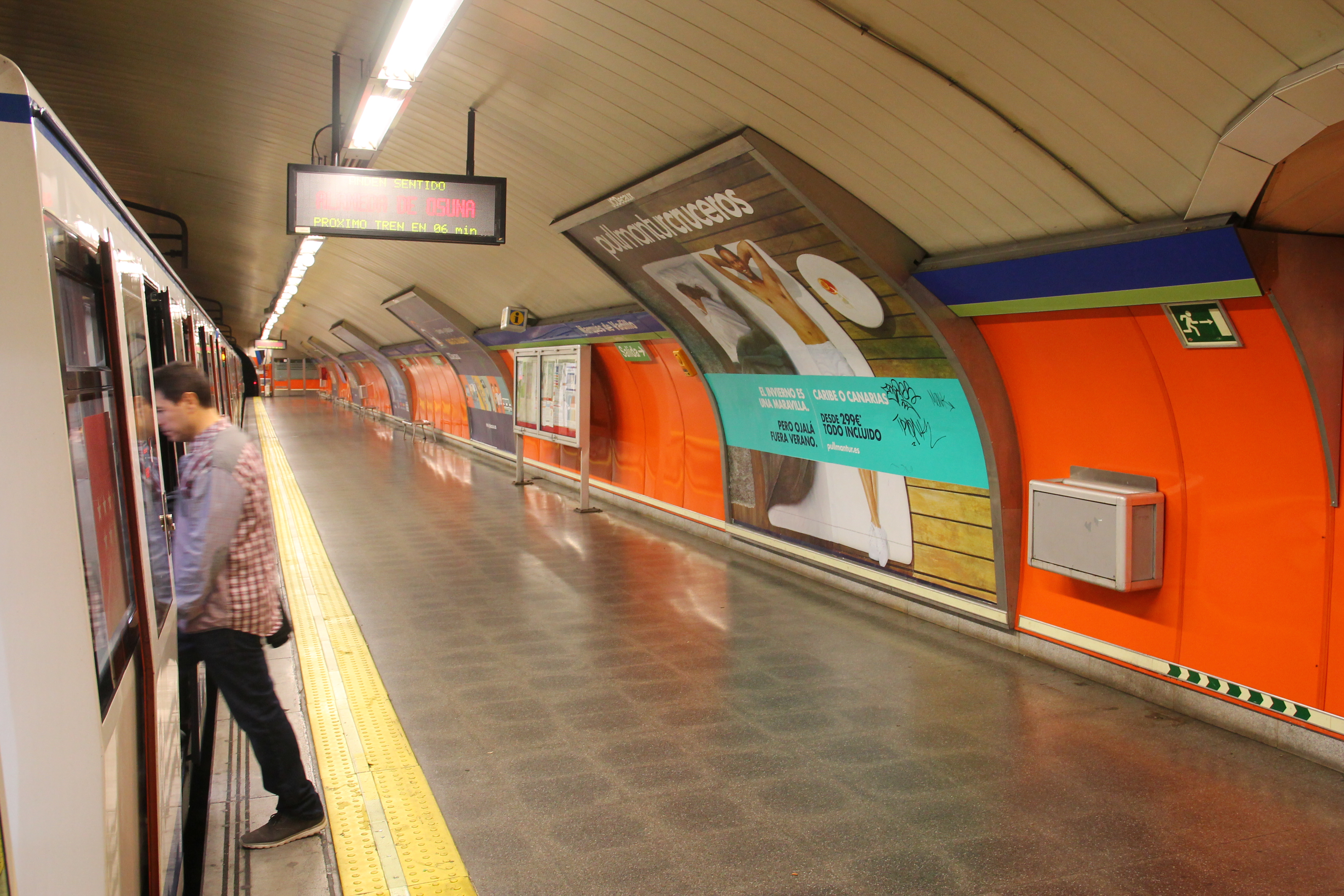 Estación de Marqués de Vadillo